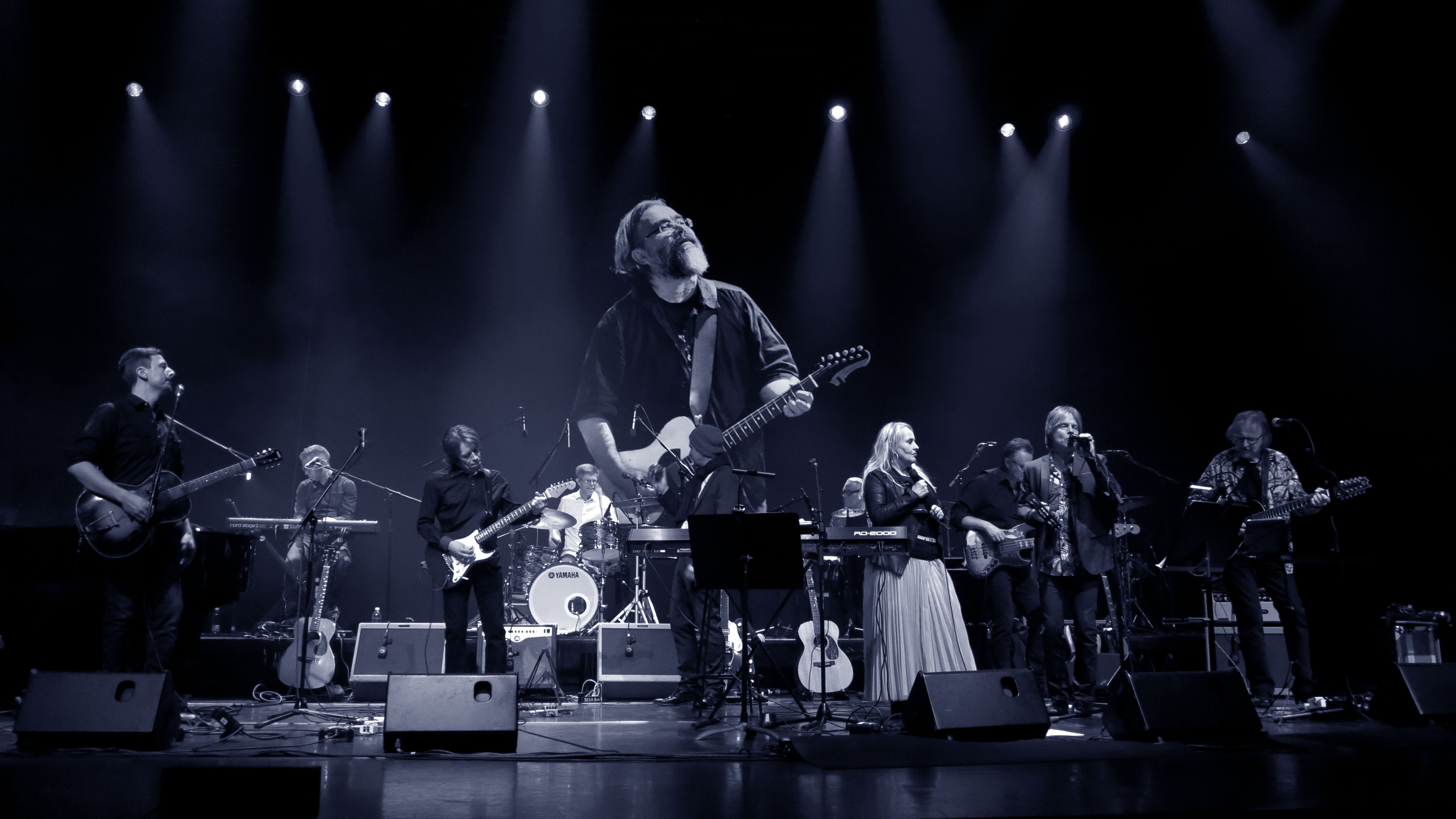 Memorial concert of Finnish musician Esa Kaartamo at Sellosali, Espoo, December 20, 2018.